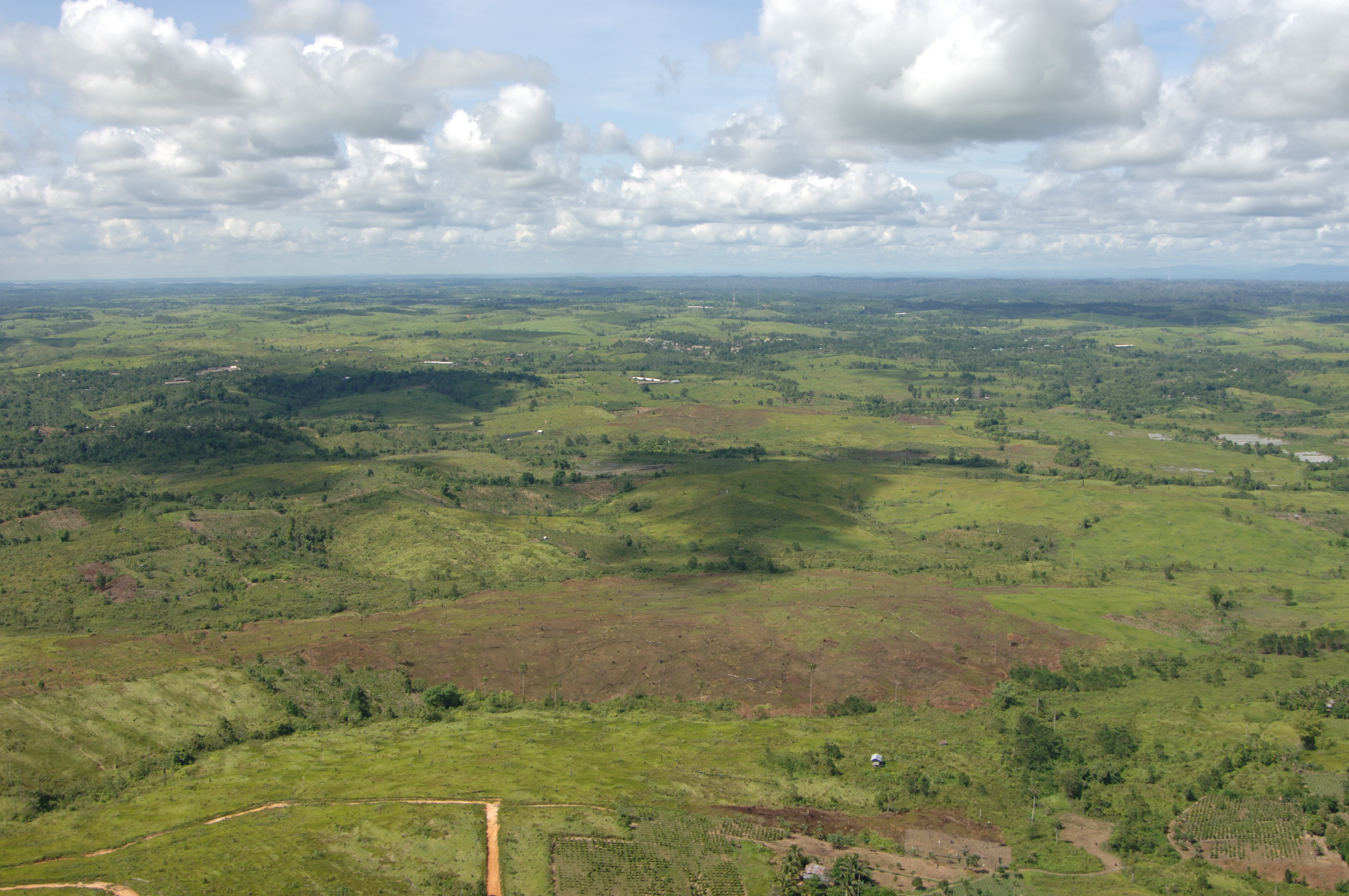 Imperata grassland area around Samboja Lestari